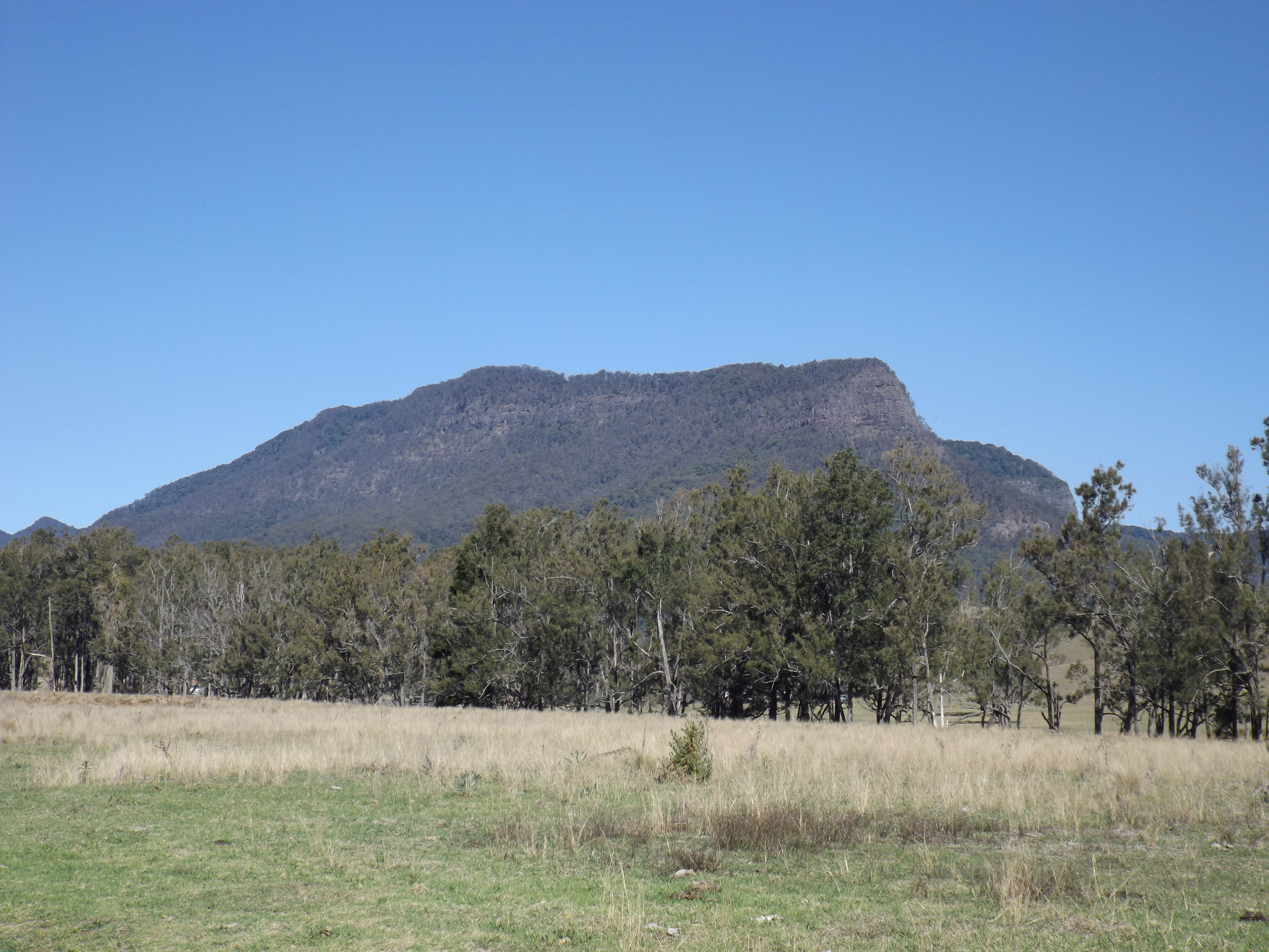 Photo of Mount Widgee at Lamington, Scenic Rim Region, Queensland, Australia.